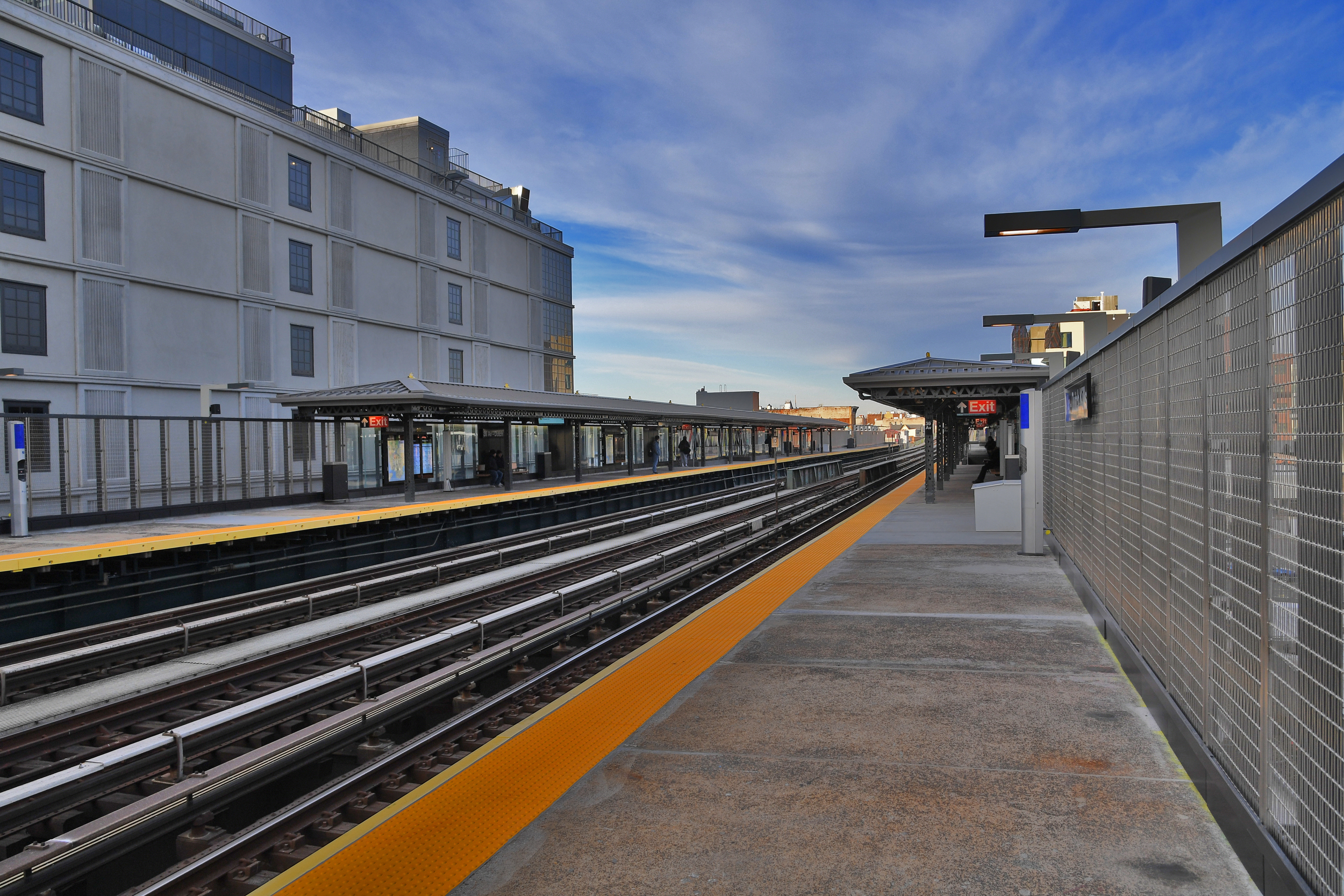 The 39 Av subway station on the N, W lines reopened on Monday, January 28, 2019, weeks earlier than scheduled. The station was closed in summer 2018 for a major repair project that included work to the station's structural steel and concrete, and modernization work that included new digital signage and a redesigned turnstile area. The station was also renamed as 39 Av-Dutch Kills to reflect the neighborhood's history. Photos by MTA New York City Transit / Marc A. Hermann